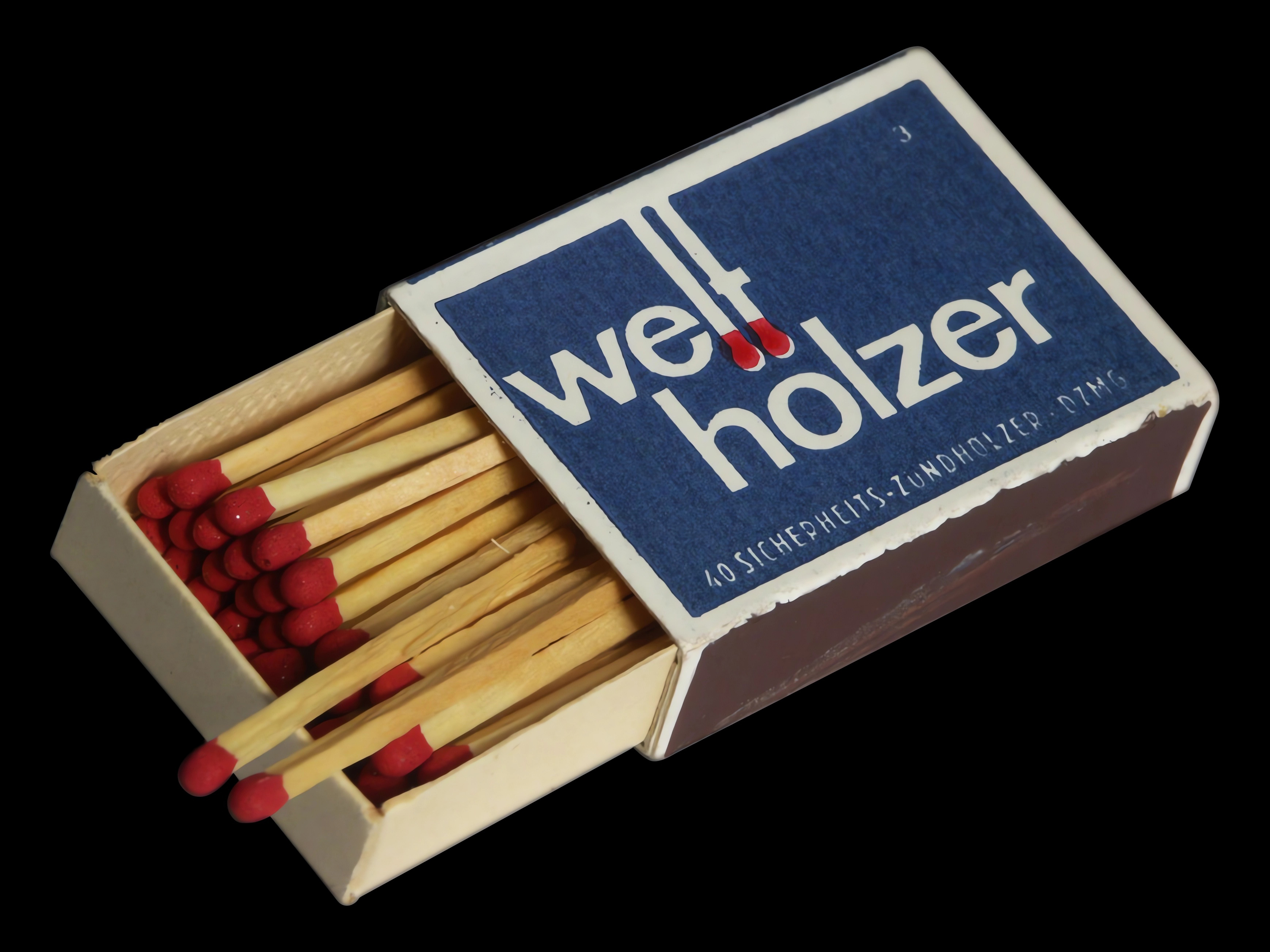 Matchbox